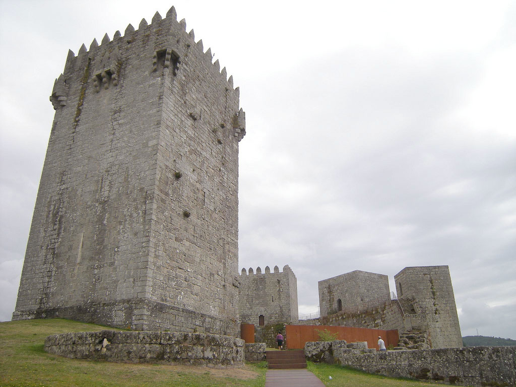 Montalegre Castle, Portugal